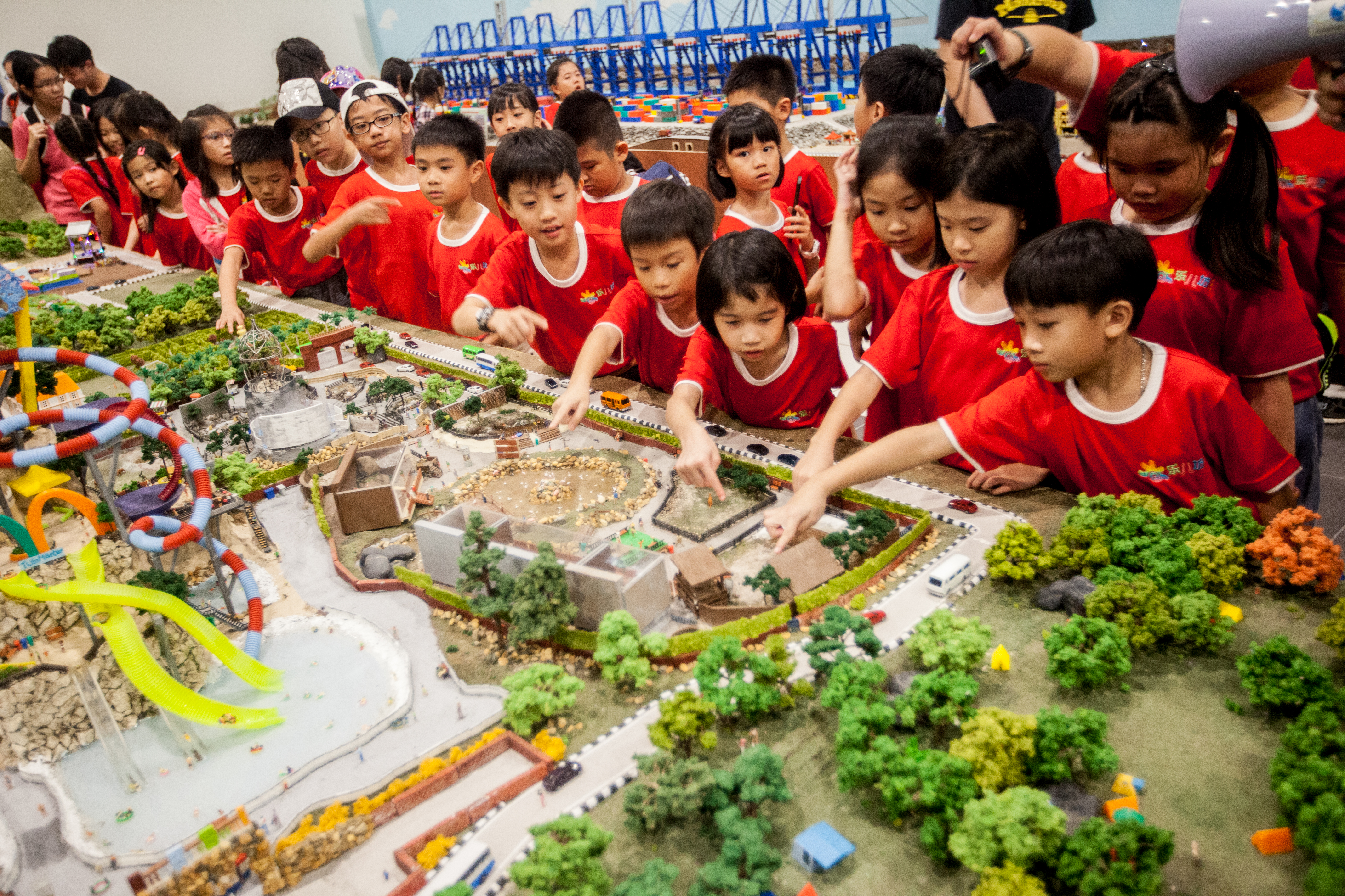 Children viewing MinNature exhibits upclose. School Excursion.